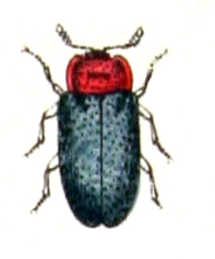 Tetratoma fungorum, from Calwer's Käferbuch, Table 46, Picture 4. Taxonomy was updated to 2008, using mostly the sites Fauna Europaea and BioLib. Please contact Sarefo if the determination is wrong!